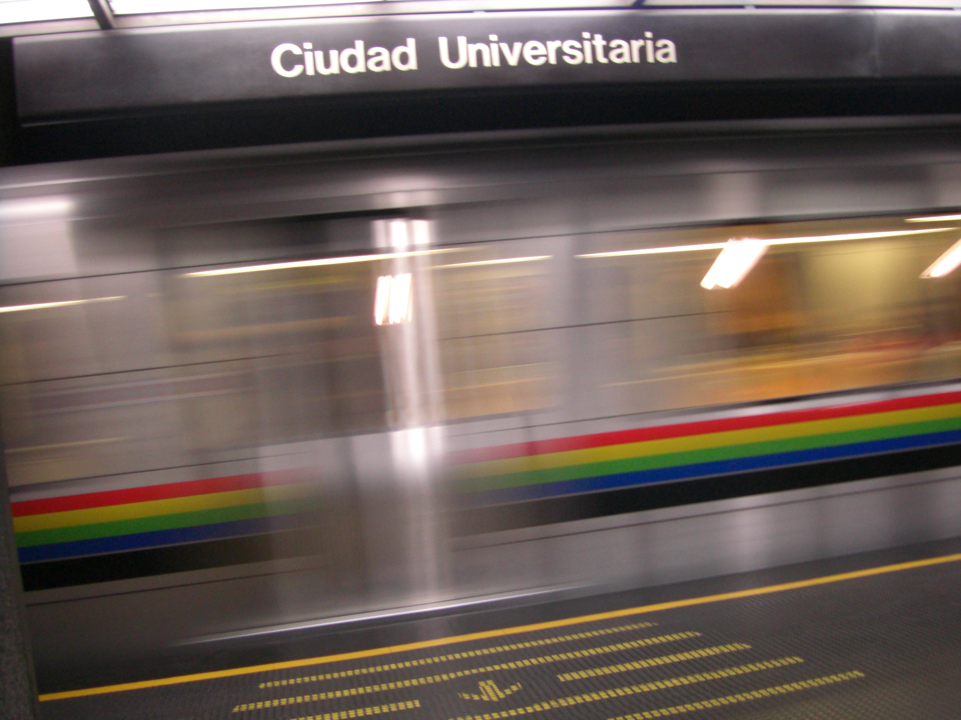 Caracas metro Ciudad Universitaria sign and moving train